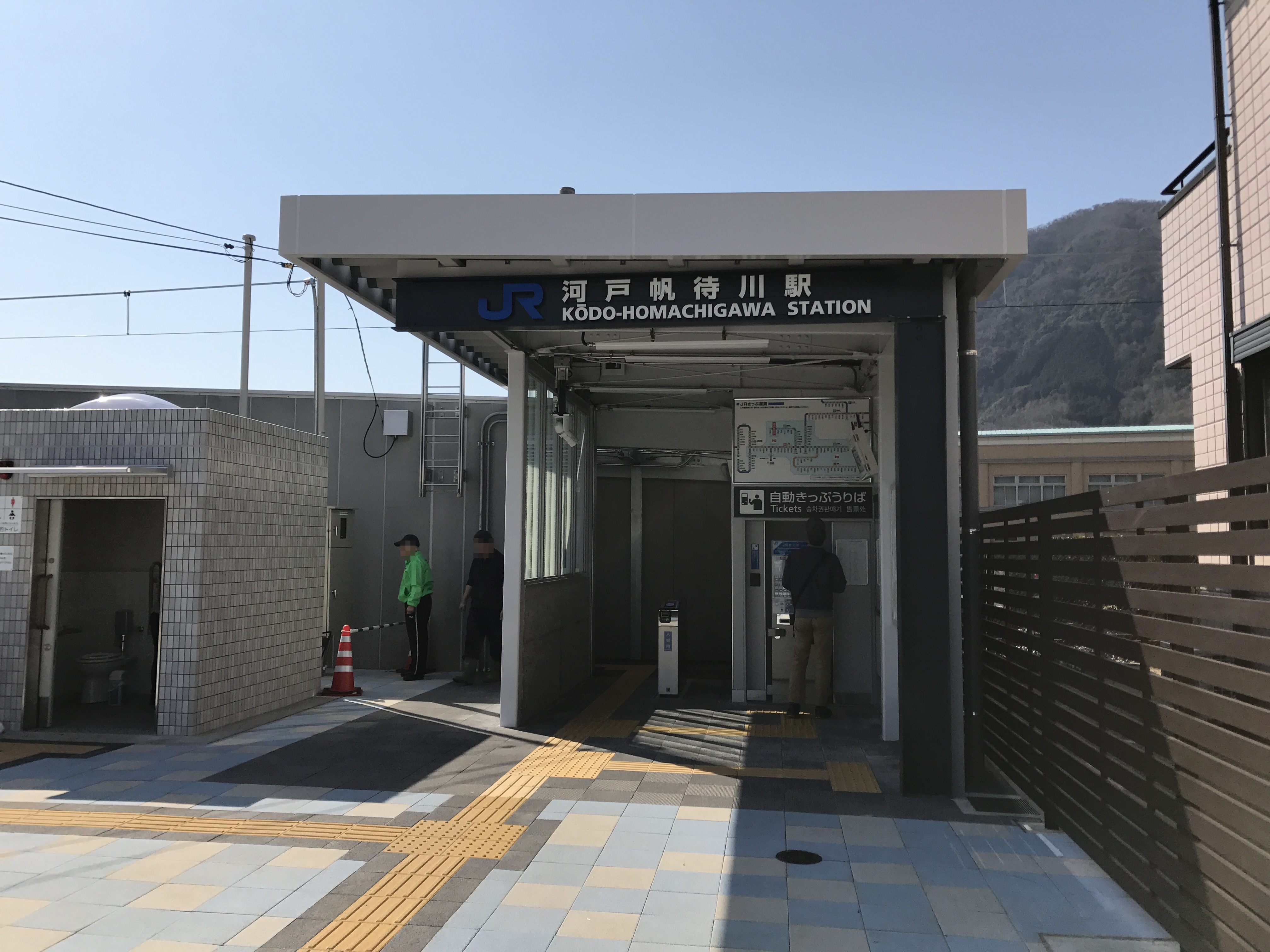 Newly-opened Kōdo-Homachigawa Station on the Kabe Line in Hiroshima, Japan